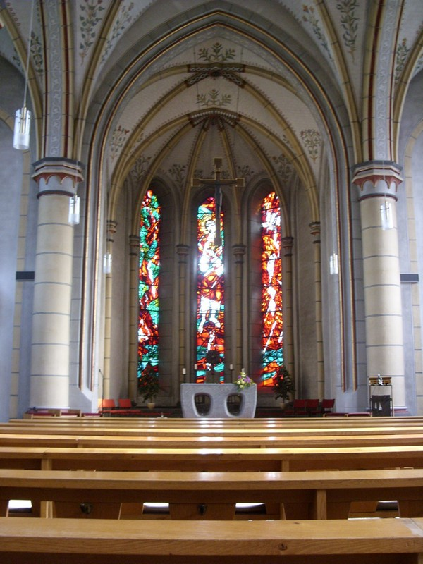 Interior of the roman catholic church in Theley, Saarland